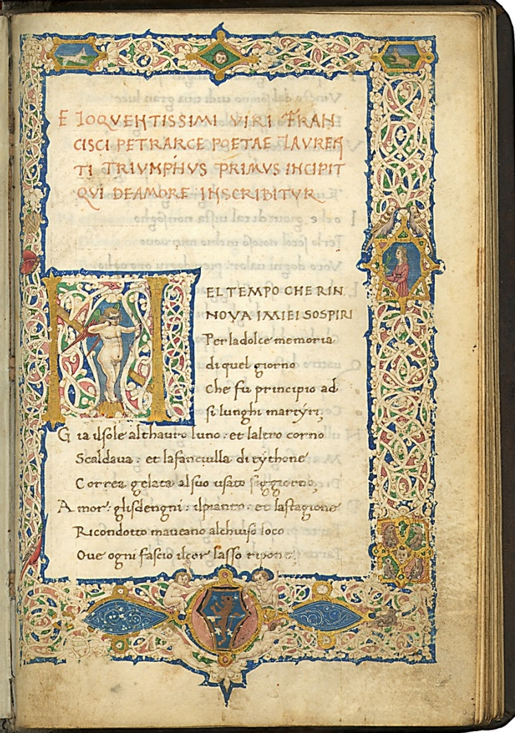 I Trionfi Francesco Petrarca.Italian text: Eloquentissimi viri Fran/ cisci Petrarce poetae lauren/ ti triumphus primus incipit/ qui de amore inscribitur Nel tempo che rin nova i miei sospiri Per la dolce memoria di quel giorno che fu principio ad si lunghi martyri, gia il sole al thauro luno: et laltro corno scaldava: et la fanciulla di tythone correa gelata al suo usato soggiorno Amor': glisdengni: ilpianto: et la stagione ricondotto mancano alchuiso loco Ove' ogni fascio il cor lasso ripose